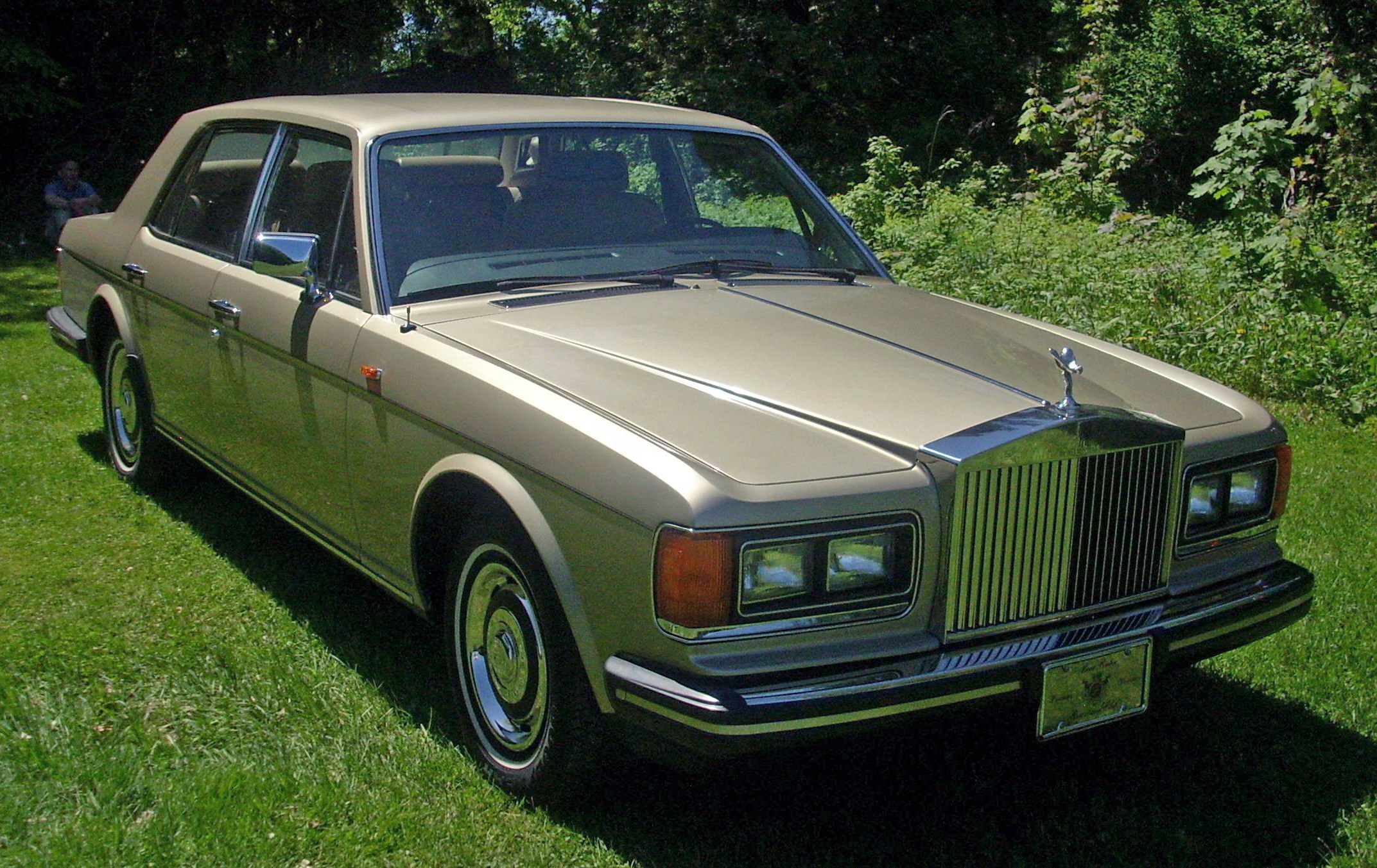 Rolls-Royce Silver Spur photographed at the 2008 Hudson British Car Show.